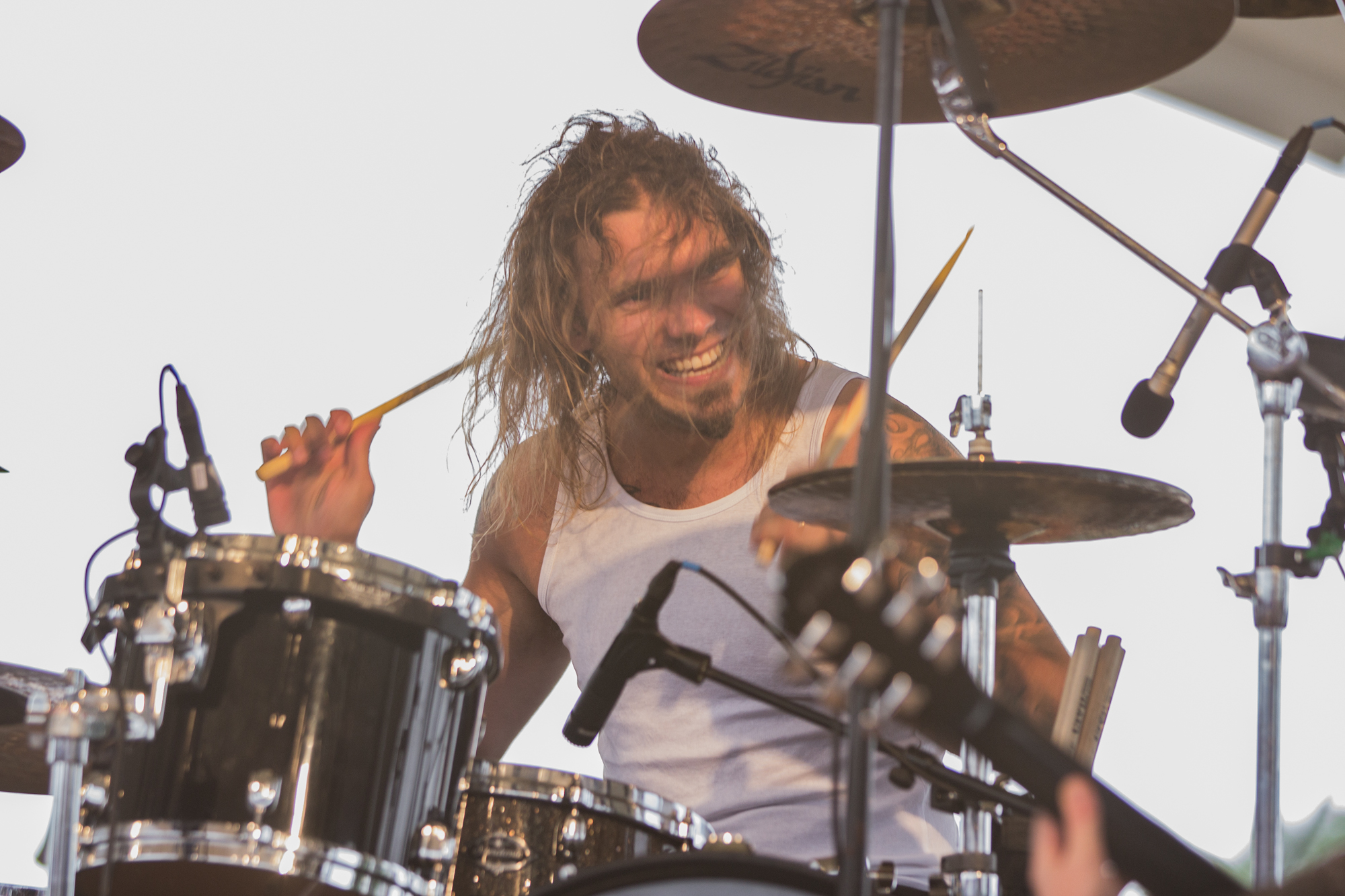 Civil War at Noch ein Bier Fest 2015 (Amphitheater, Gelsenkirchen, North-Rhine-Westphalia, Germany) on 25th July 2015